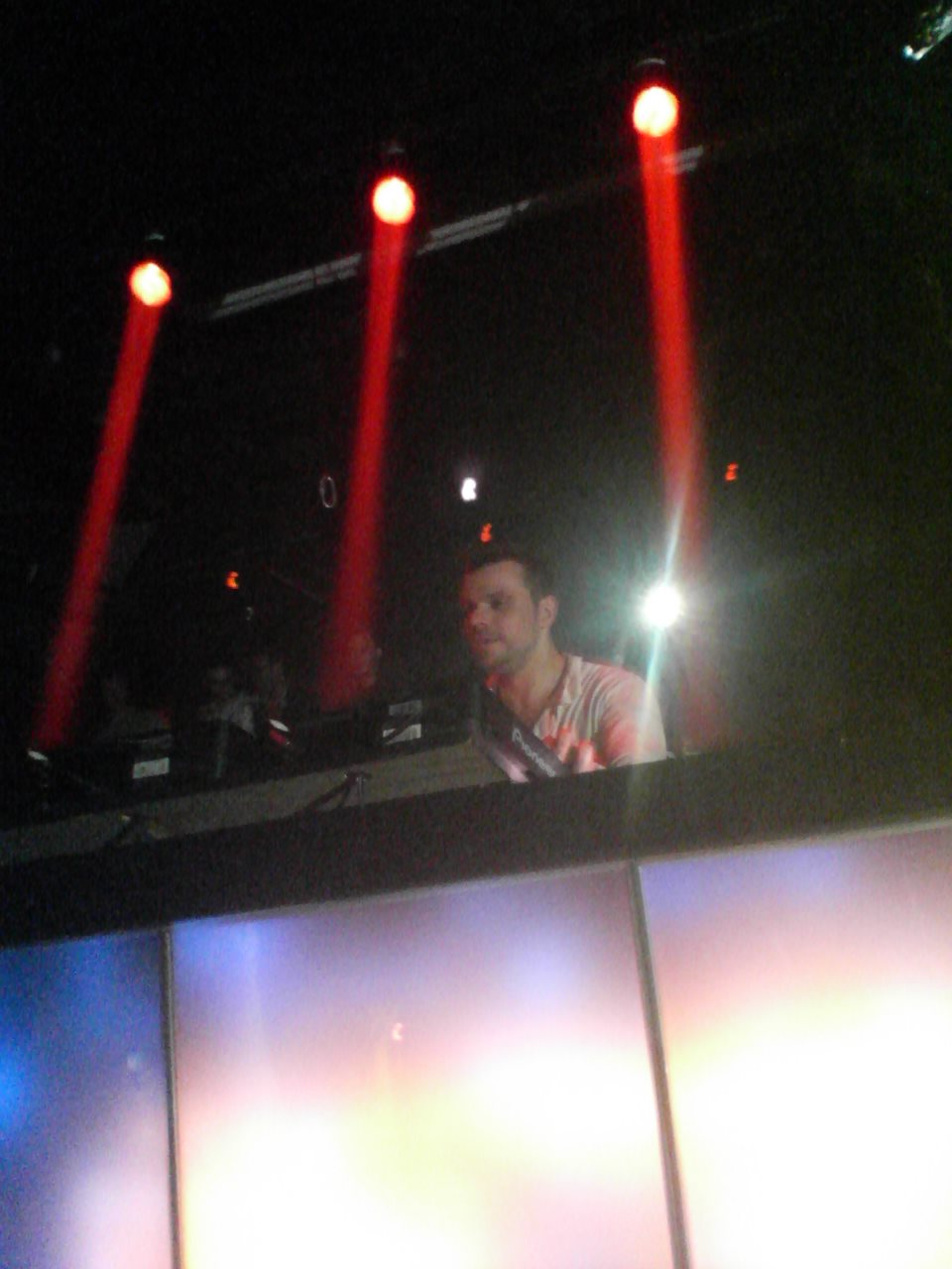 Picture of André Tanneberger spinning/DJ'ing at Pacha in New York City, night of 17 May 2007 morning of 18 May 2007. Picture was taken with a cellphone (LG "The V" VX9800) by Ivan Vasquez, at dance floor level (within 10 feet of André).